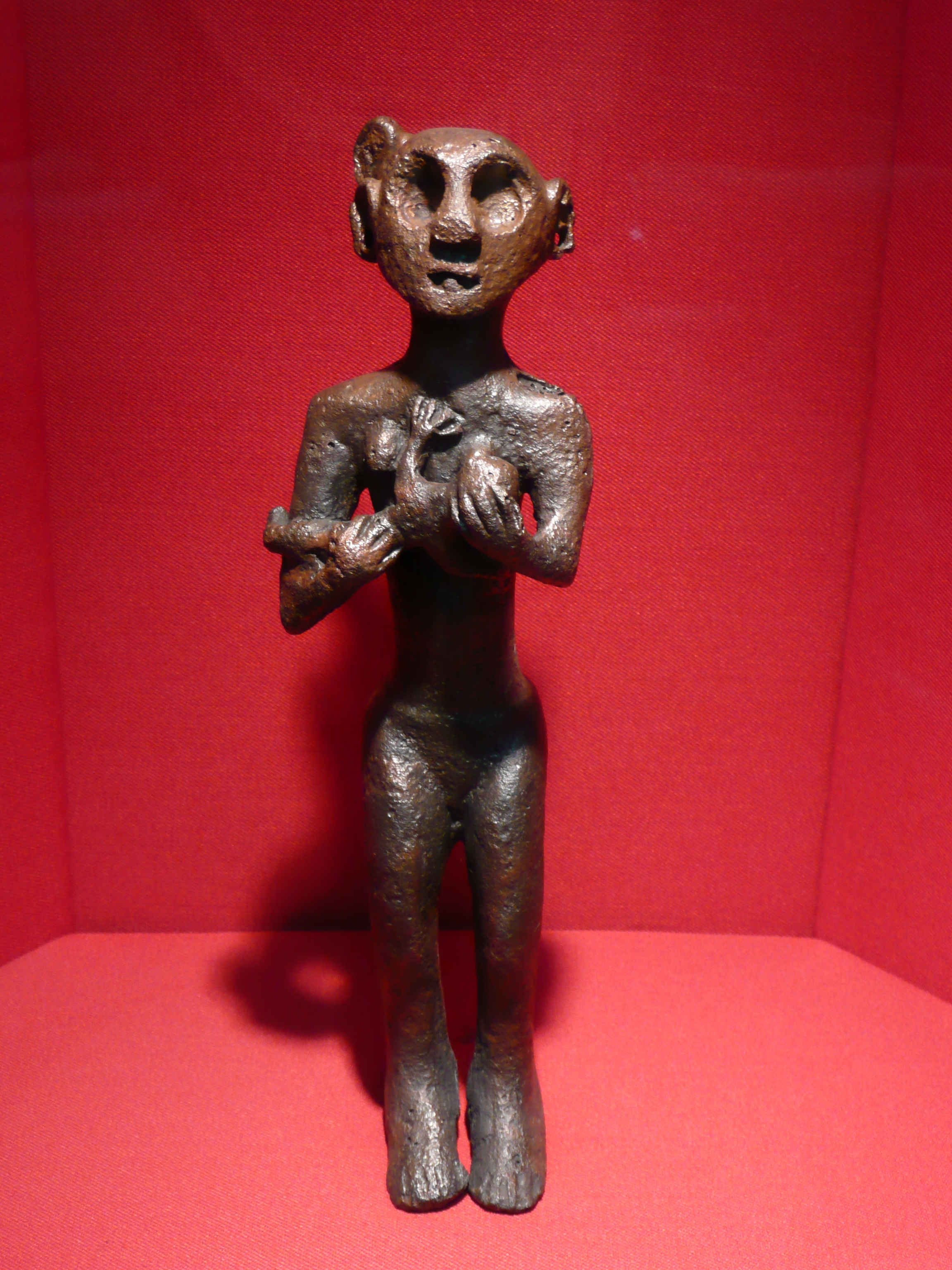 The Museum of Anatolian Civilizations is situated in Ankara, Turkey. It is one of the leading museums in the world for its unique collection of the ancient history of Anatolia.